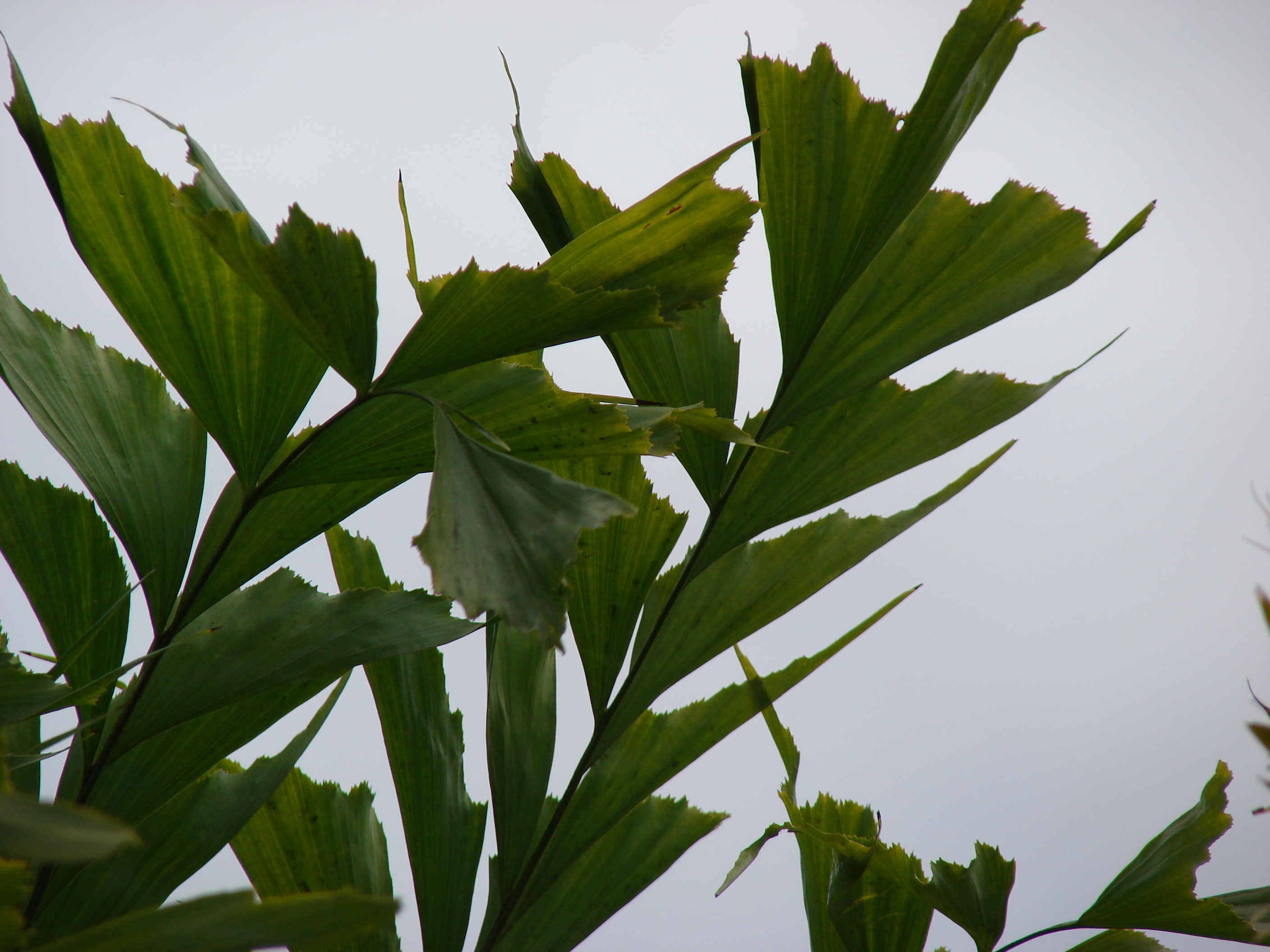 Caryota mitis (leaves). Location: Maui, Piilani Villages Shopping Center Kihei